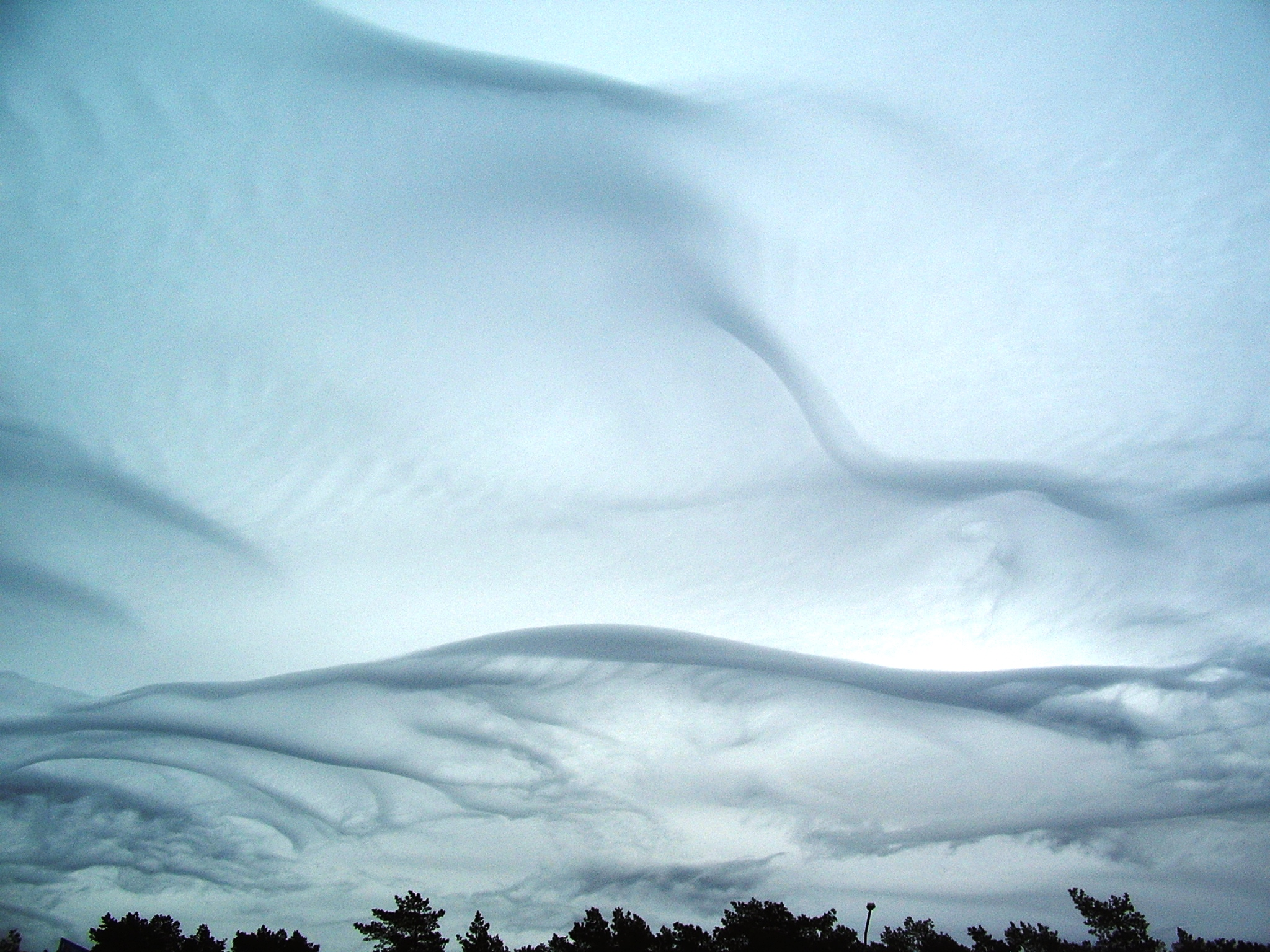 Clouds (Undulatus asperatus) above Tallinn